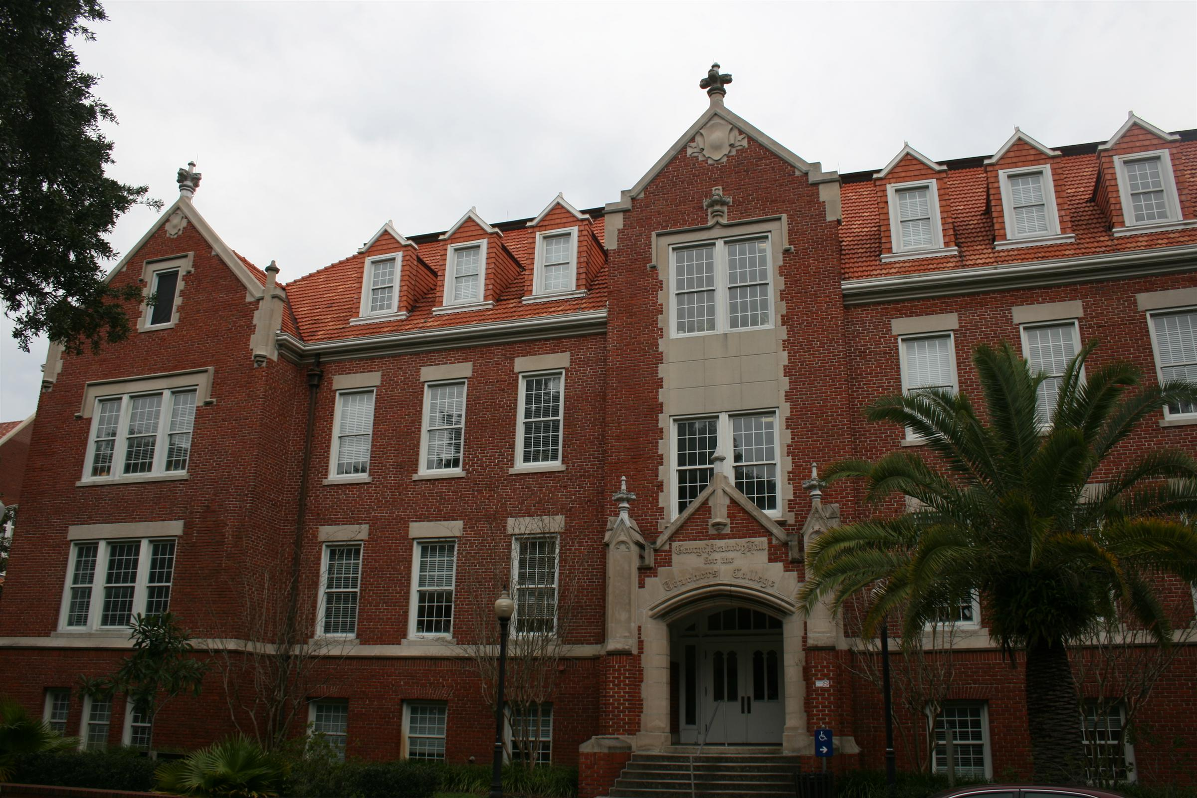 On 5 January 2007 I took pictures of most of the buildings on the UF campus that are designated National Historic Places. The only two buildings I didn't take pictures of are the Old WRUF station building and the Women's Gym. The day was overcast and about to rain so the skies aren't so great, but I think they get the job done. If I get any better shots of these buildings I'll upload them in place of the older ones. This message will be the same on all the images. --Douglas Whitaker 05:59, 6 January 2007 (UTC)